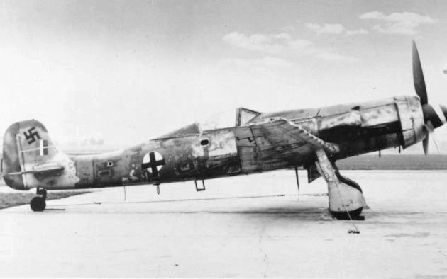 PictionID:38235597 - Catalog:Array - Title:Array - Filename:15_002305.TIF - -------Image from the Charles Daniels Photo Collection.----Album: German Aircraft.-----------PLEASE TAG these images with any information you know about them so that we can permanently store this data with the original image file in our Digital Asset Management System.-----------------SOURCE INSTITUTION: San Diego Air and Space Museum Archive